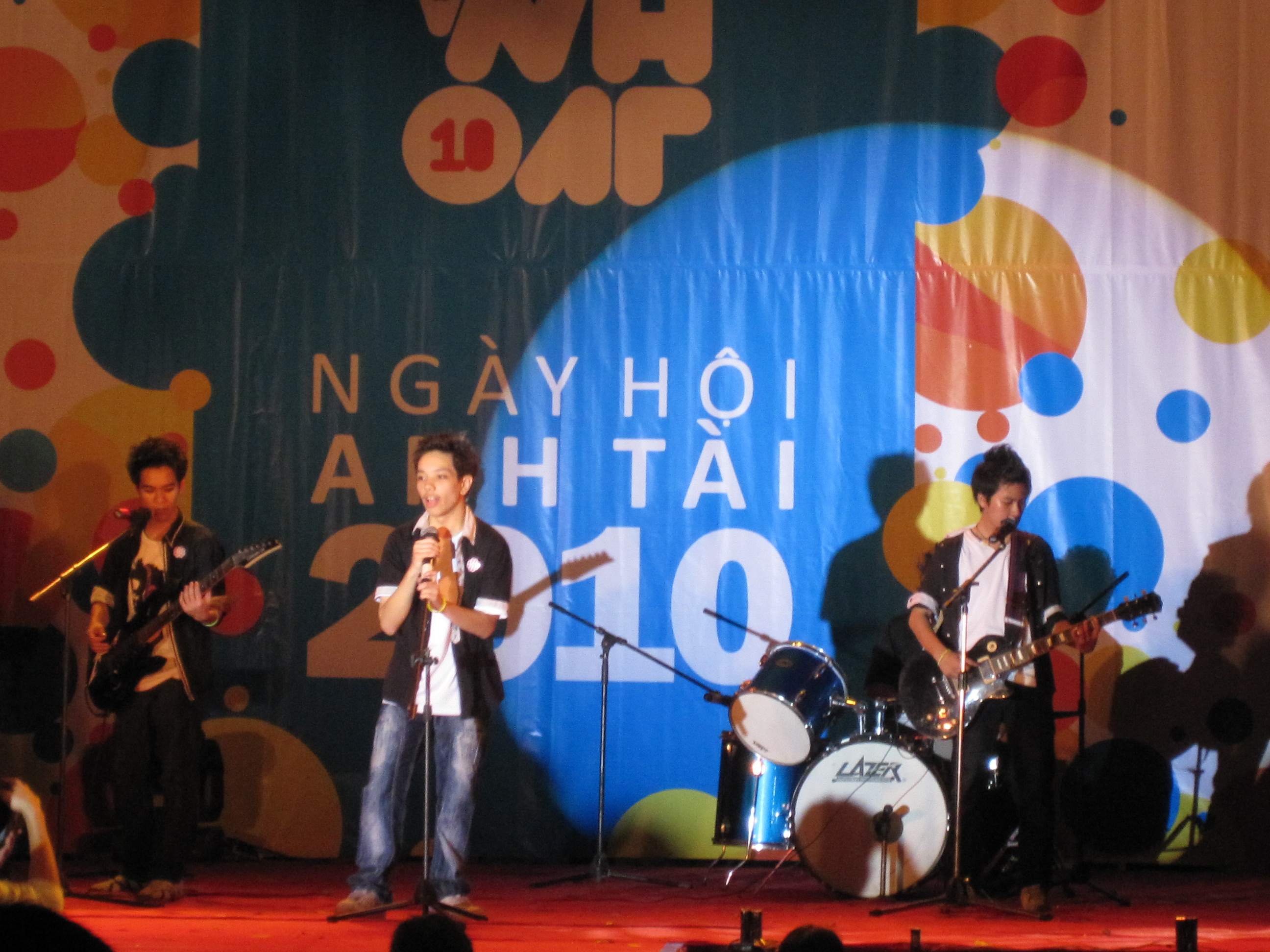 Hanoi - Amsterdam High School, Ngày hội anh tài (The ceremony for the gifted) in 2010.